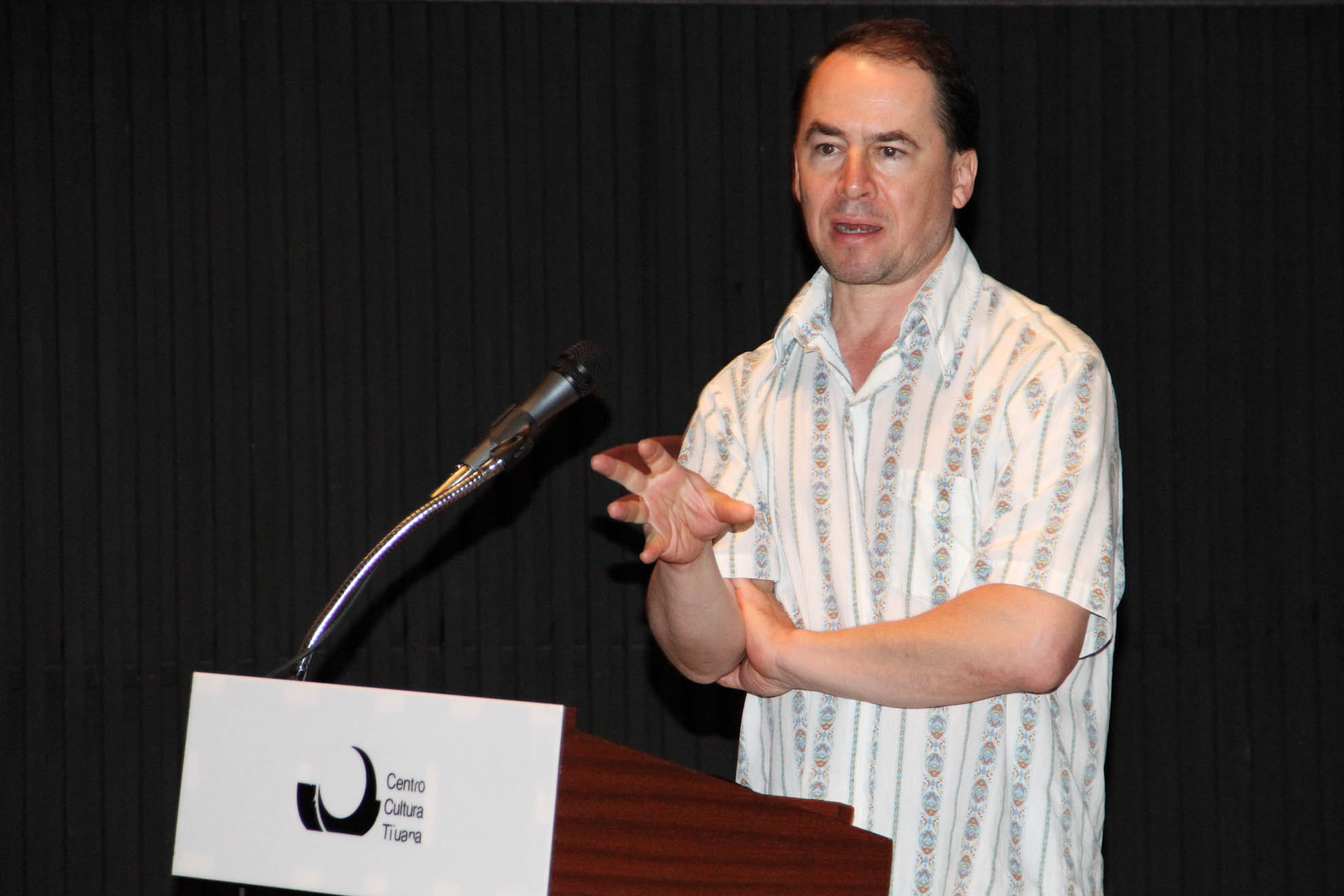 Jesse Lerner at a screening of his film "The Absent Stone" in Tijuana, Mexico. 15 March, 2013. Picture by Karloz Byrnison / Ambulante Festival.